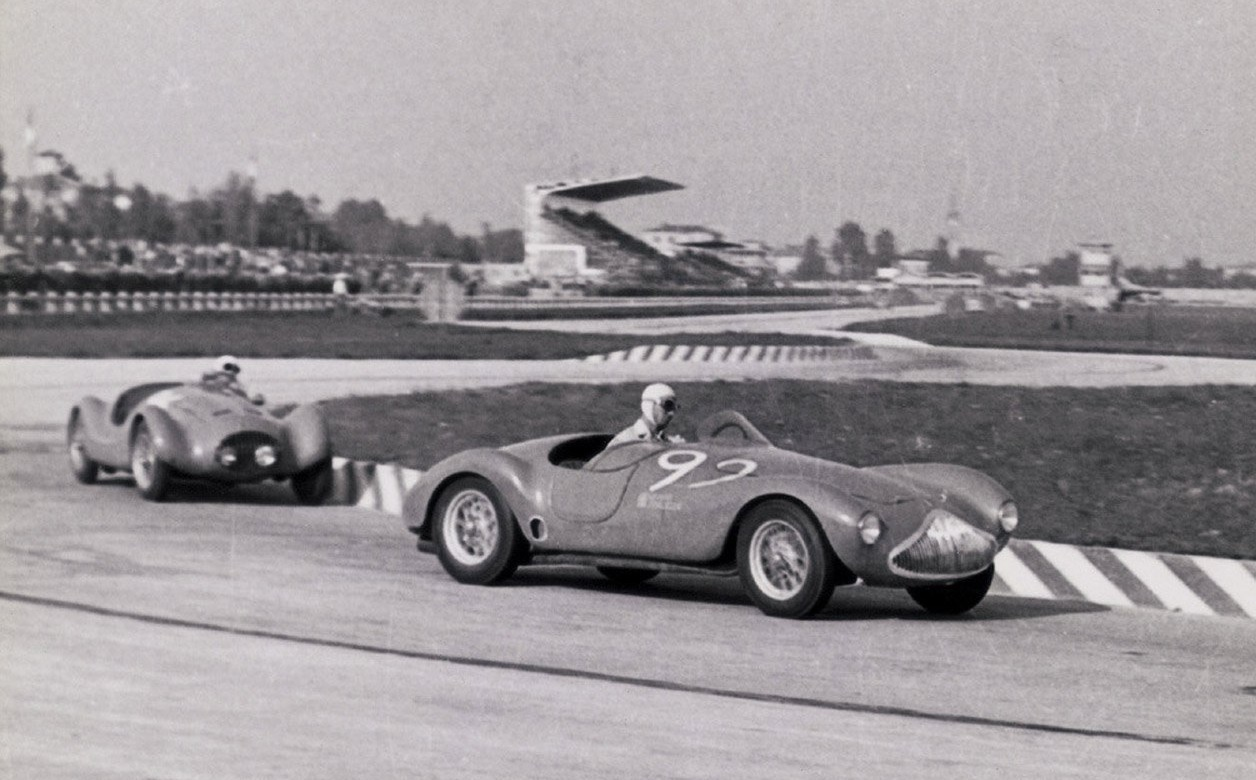 Entry #92 at the Grand Prix dell'Aerautodromo, Modena on 8 October 1950 is Sergio Sighinolfi driving a Stanguellini 1100 Sport. Behind is Felice Bonetto (looks like an OSCA MT4). Citation: "They are just coming out of the chicane designed by Stanguellini, which carries his name and is one of the most characteristic features of the circuit." (Caption from stanguellini.it) The Stanguellini won the race.[1]